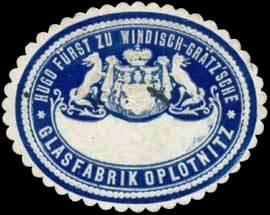 duke Windisch-Graetz's glass factory at Oplotnica, Slovenia